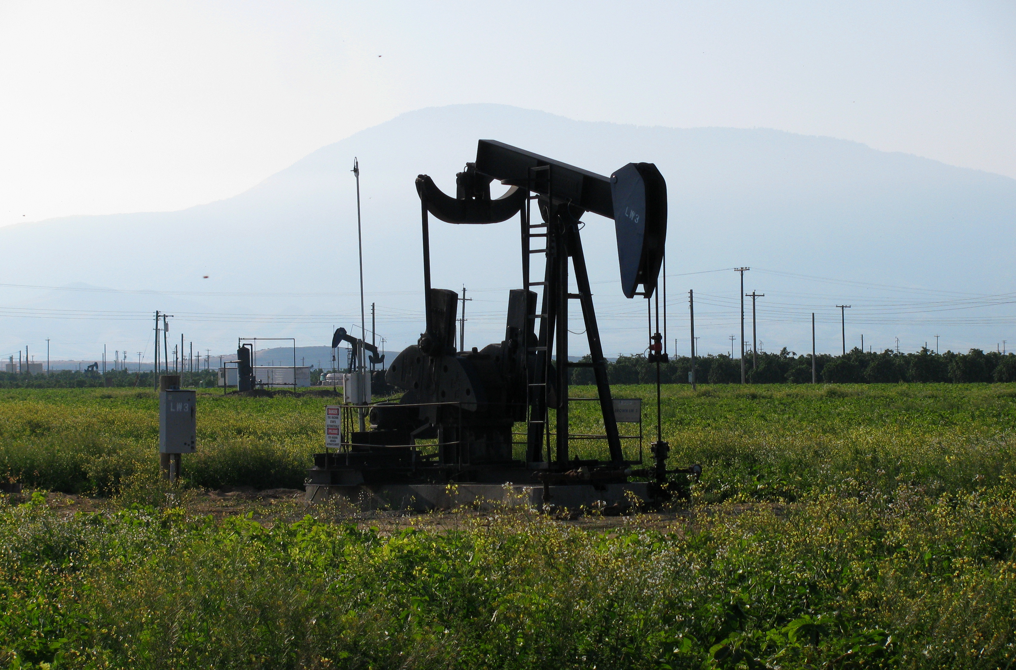 Edison field oil well, in an agricultural setting (row crops and orchards). Own work, GFDL/equiv.